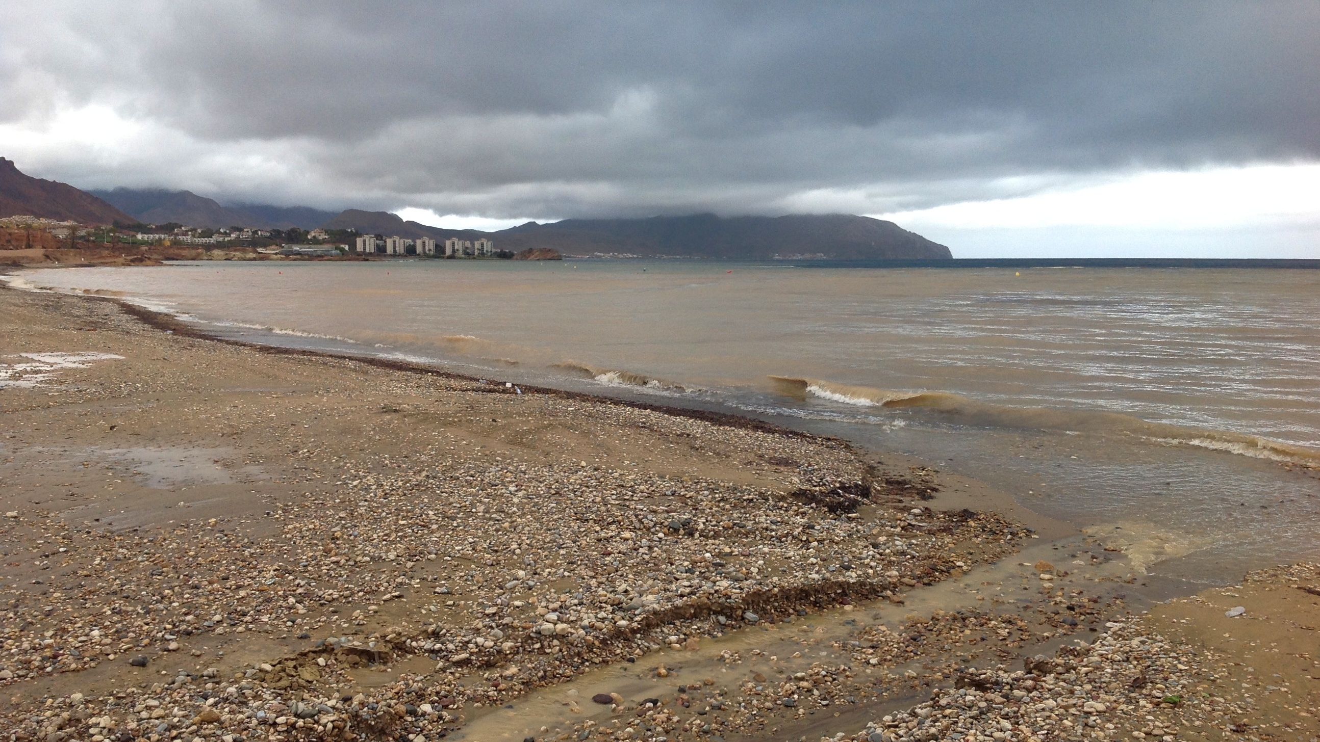 Spain. Murcia. El Alamillo's area. September 2012.